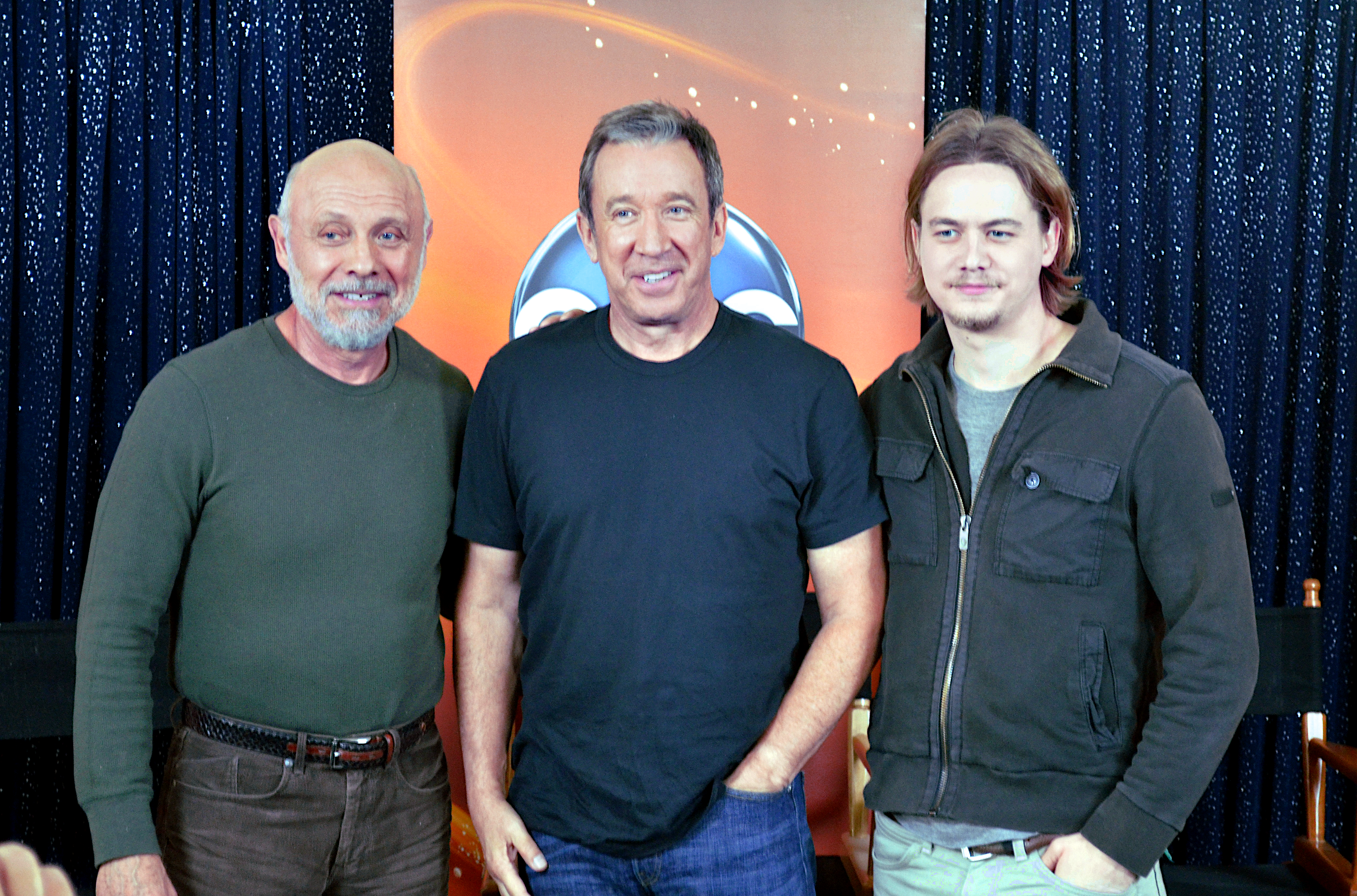 Hector Elizondo, Tim Allen and Christoph Sanders